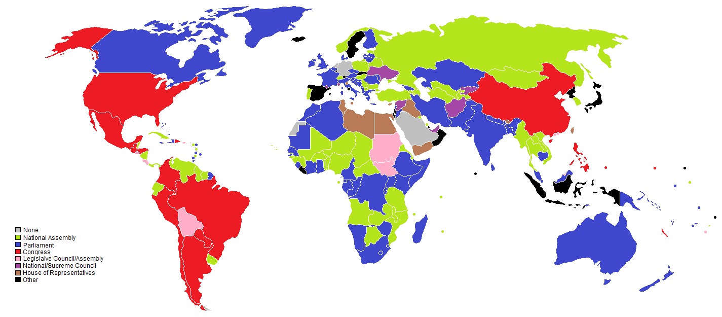 Map of the termonologies for each country's legislation.